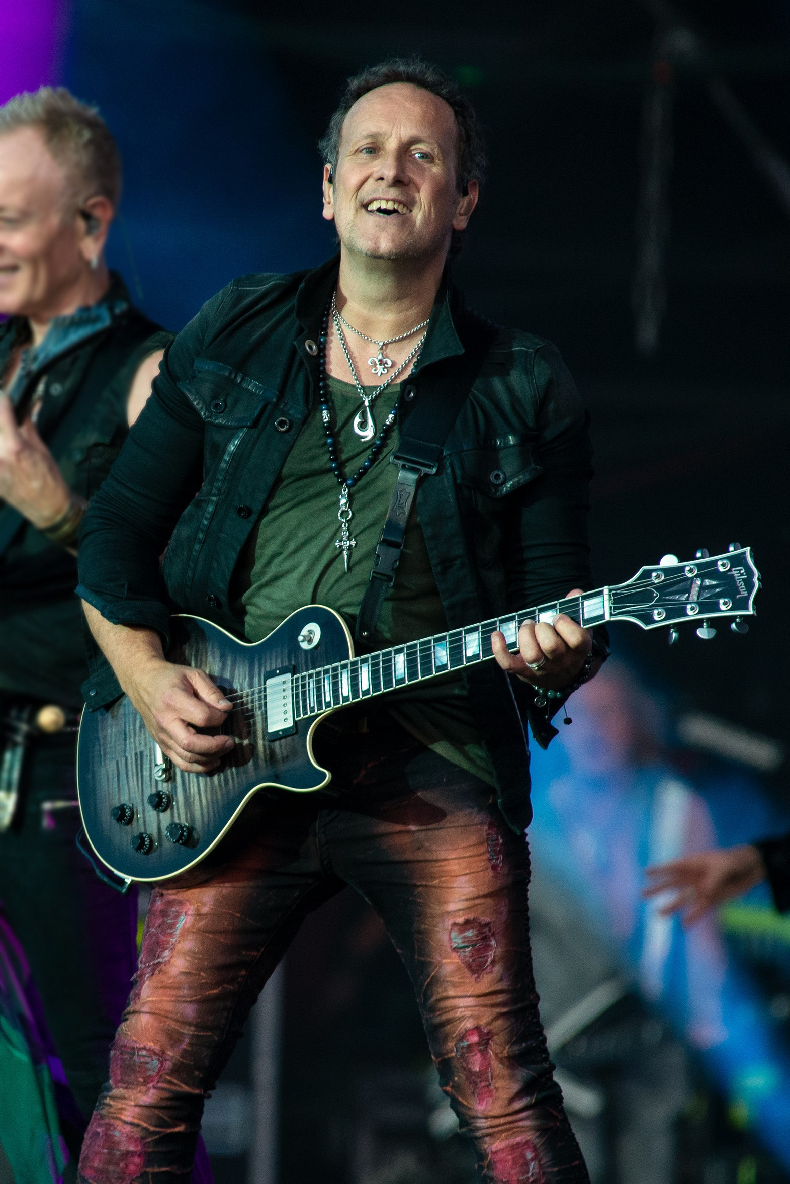 A cropped version of File:Hellfest2019DefLeppard 06.jpg